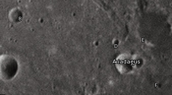 Ariadaeus lunar crater as seen from Earth with satellite craters labeled